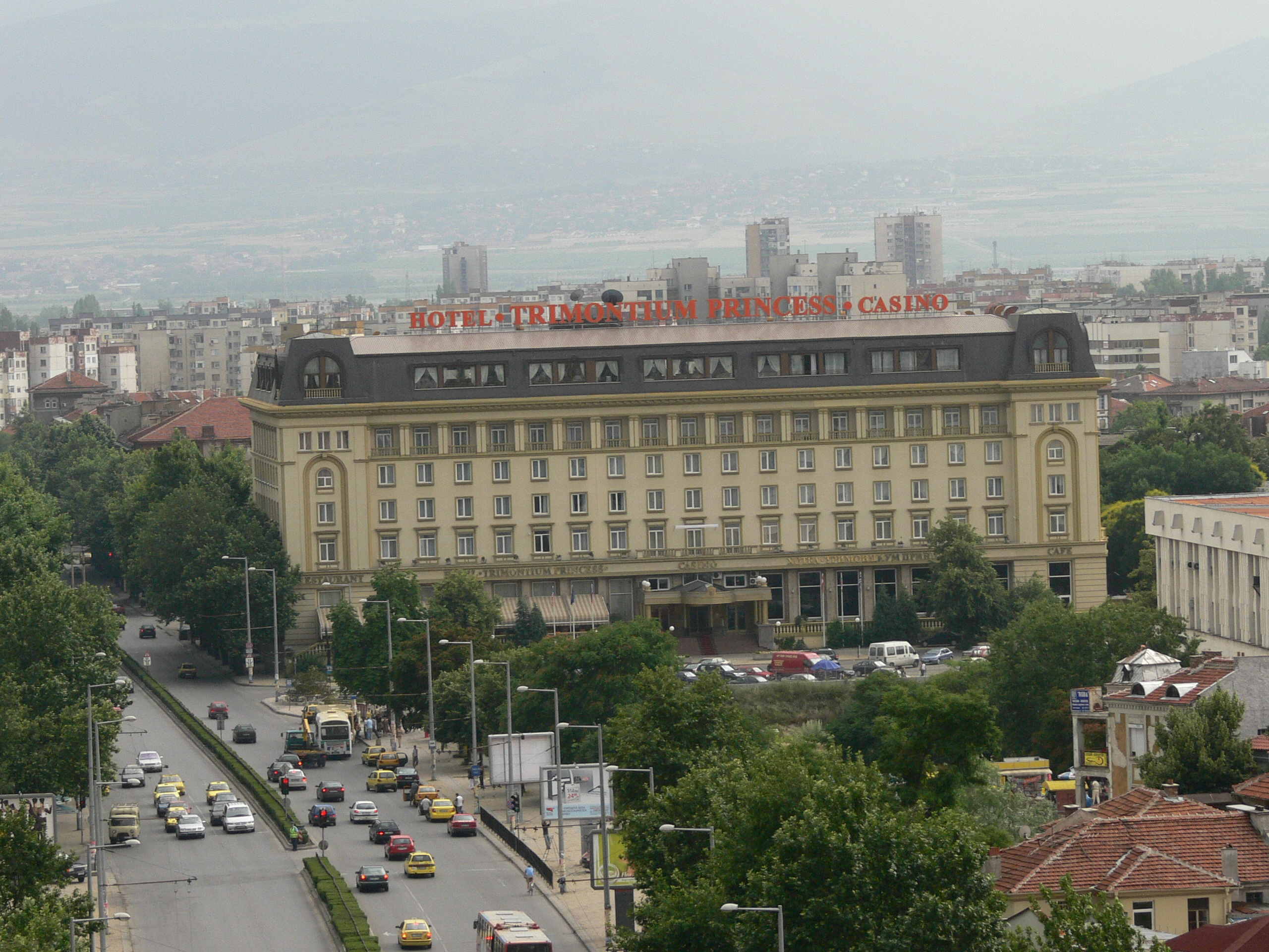 Hotel "Hotel DEDEMAN", Plovdiv, Bulgaria